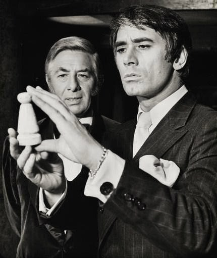 Paul Rogers (left) & Keith Baxter in the Anthony Shaffer's play Sleuth, Broadway, Music Box Theatre - publicity still (cropped, without marks)